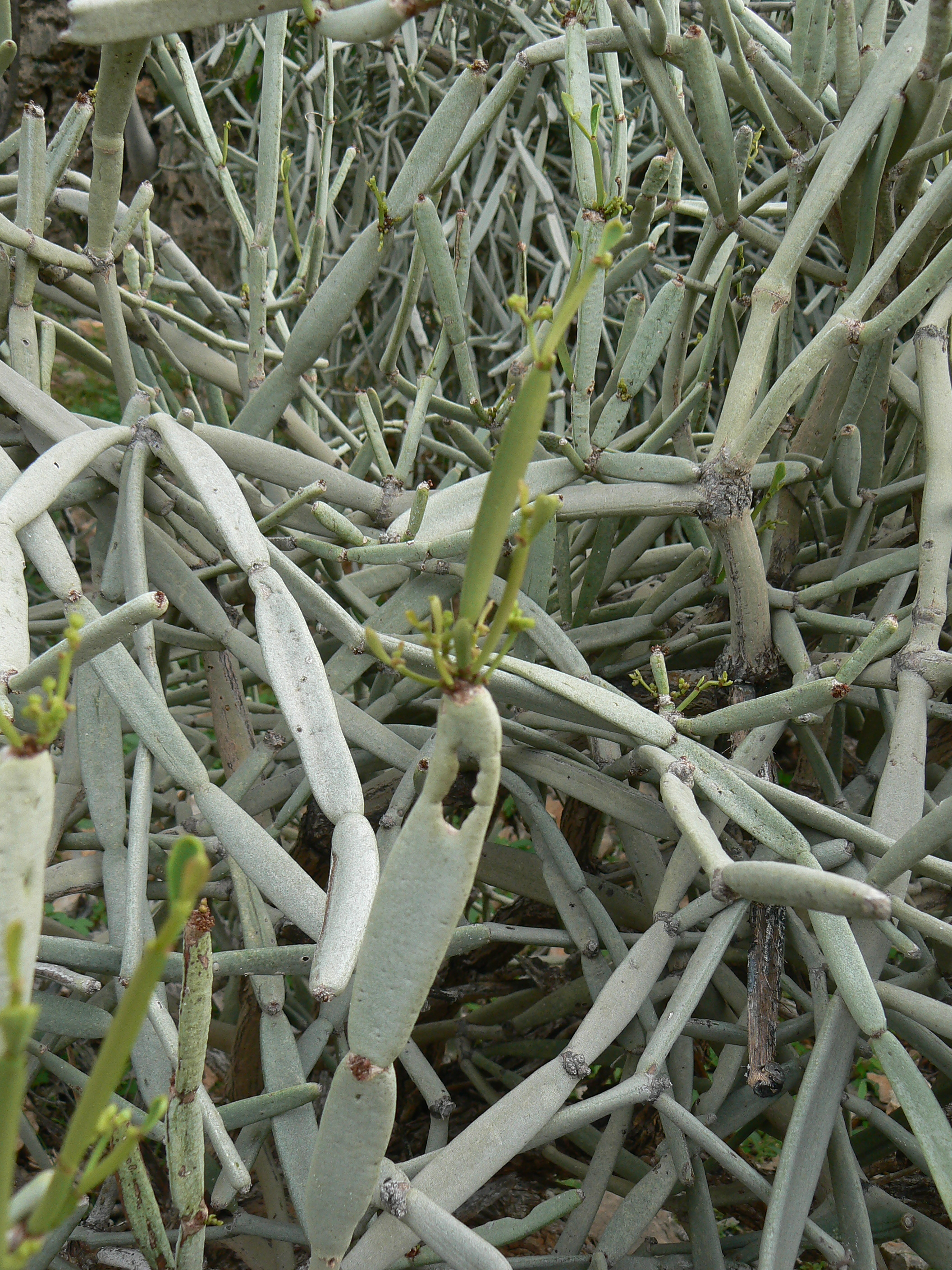 Cissus subaphylla in habitat, Road Airport-Hadibo, Socotra